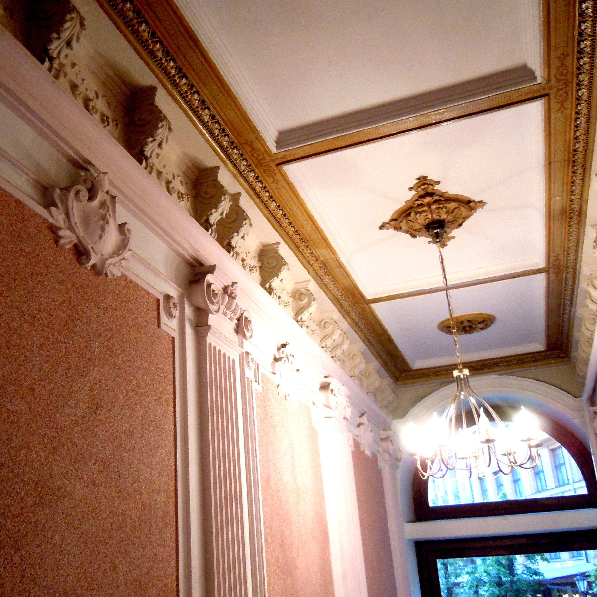 Latvia, Riga, Antonijas street, 10.